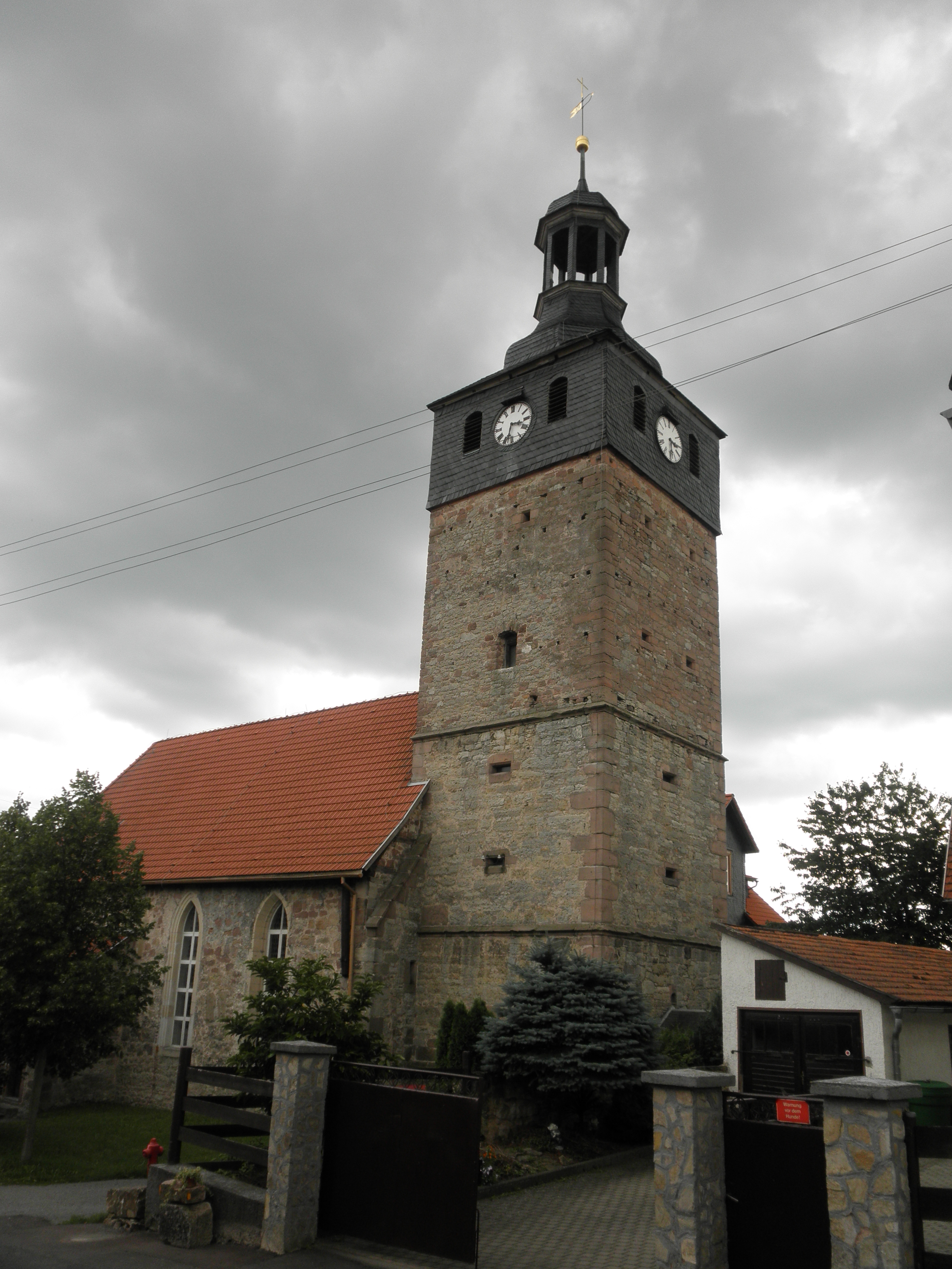 Church in Kühndorf in Thuringia